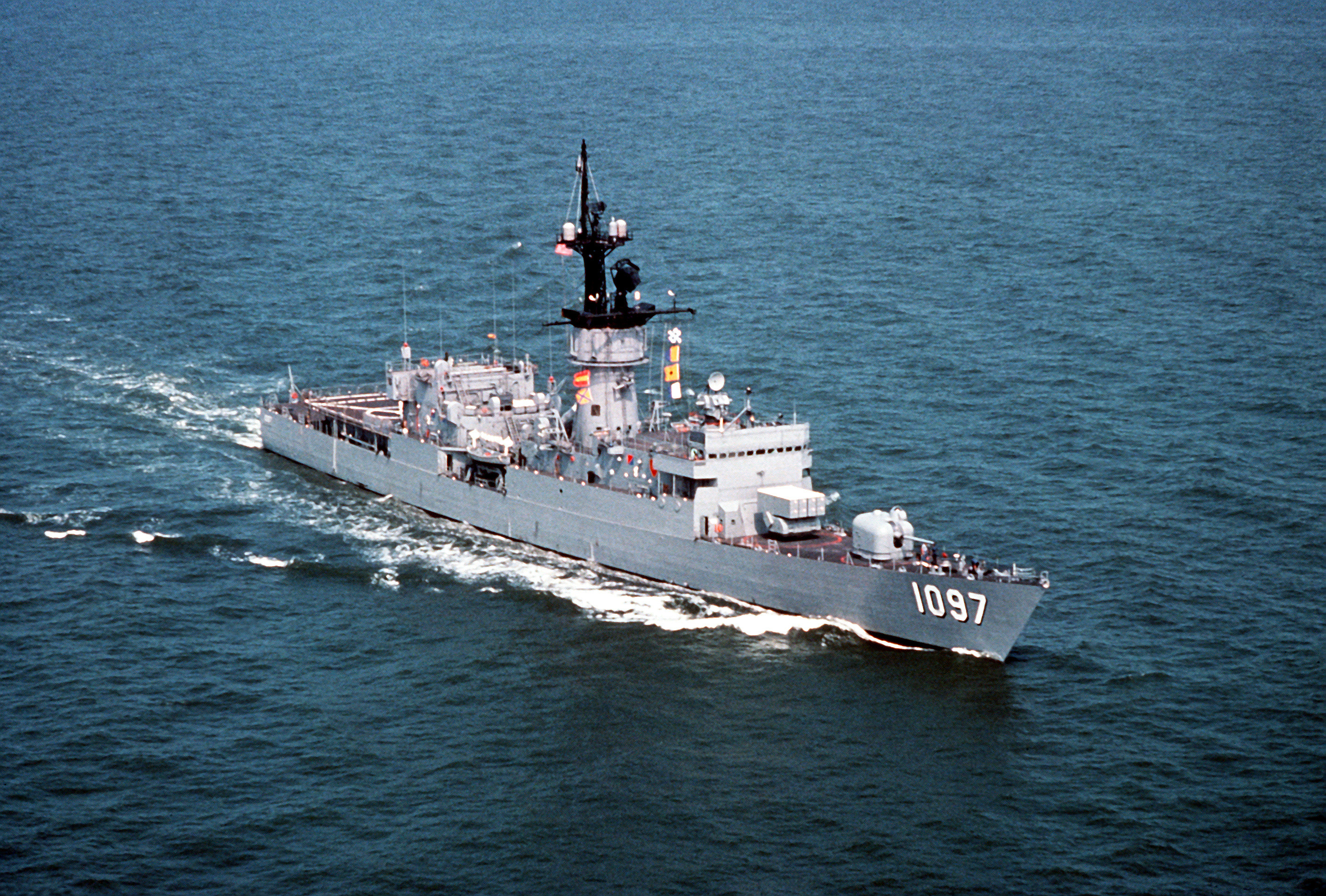 A starboard bow view of the frigate USS MOINESTER (FF-1097) underway.